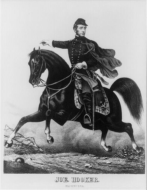 REPOSITORY: Library of Congress Prints and Photographs Division Washington, D.C. 20540 USA DIGITAL ID: (b&w film copy neg.) cph 3a35574 CARD #: 2003656369